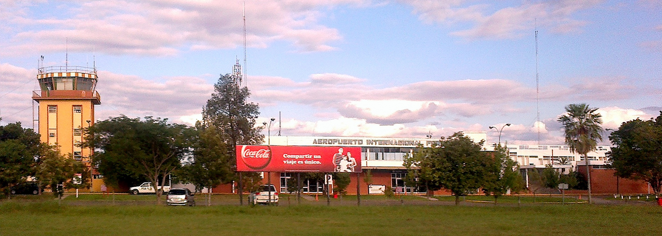 Formosa International Airport (Argentina). Year 2012